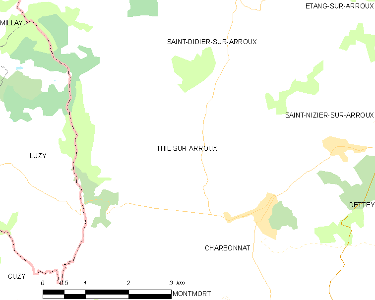 Map of French municipality